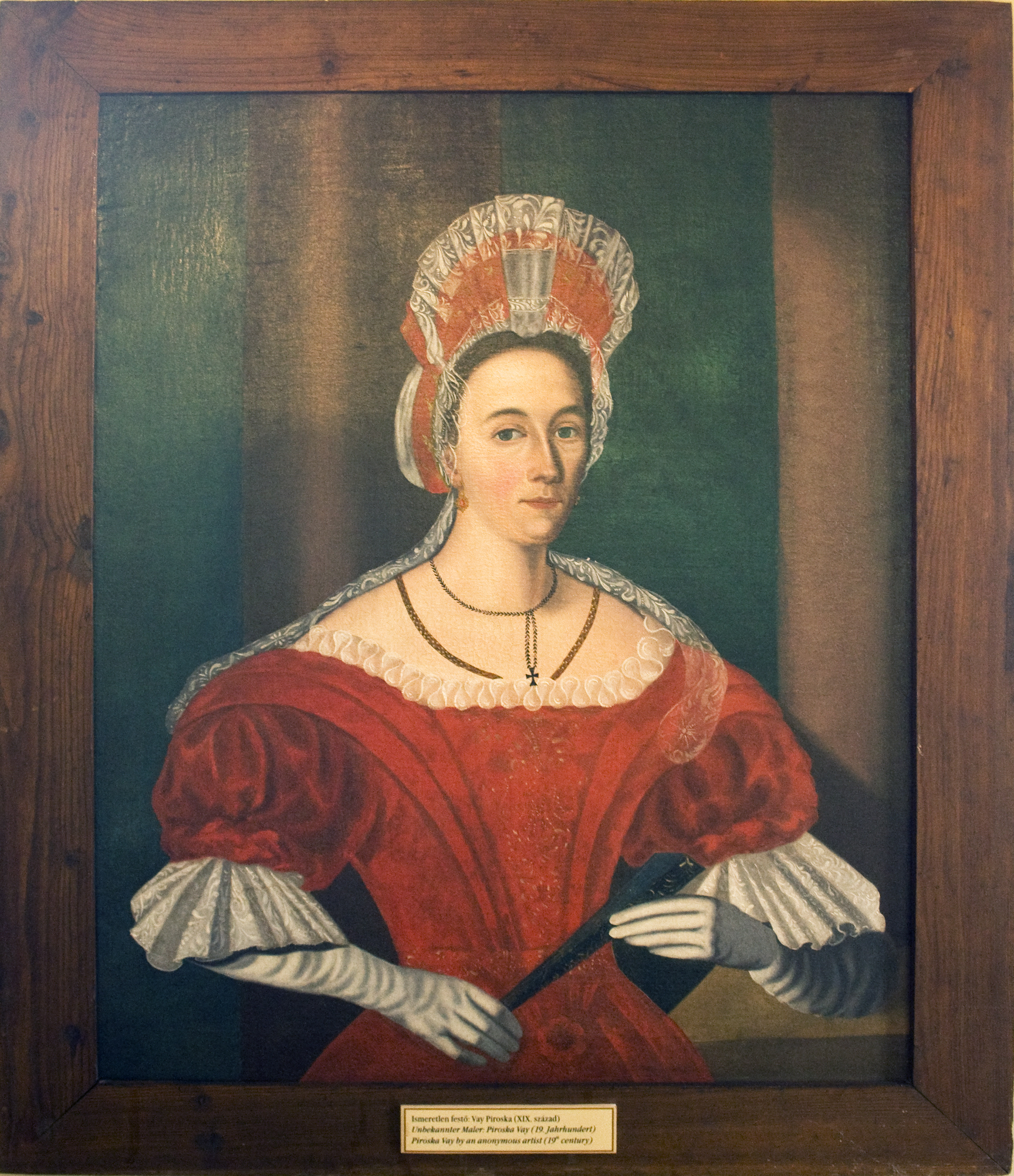 Painting of Piroska Vay in the Vaja Castle, Hungary – by unknown painter, 19th century